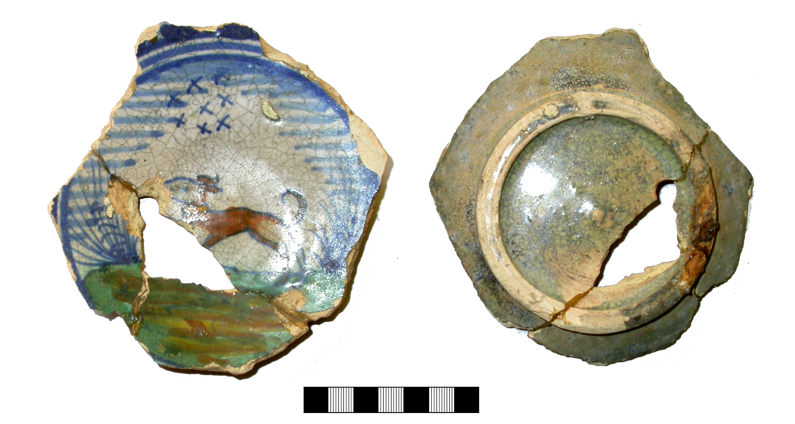 The central part and foot ring of a large dish of tin-glazed earthenware, probably London delft. Centrally is shown a hunting dog going left between blue vegetation. The blue-streaked sky contains schematic birds and the foreground is green/brown. The whole sits within a double circular blue frame 115mm diameter internally.